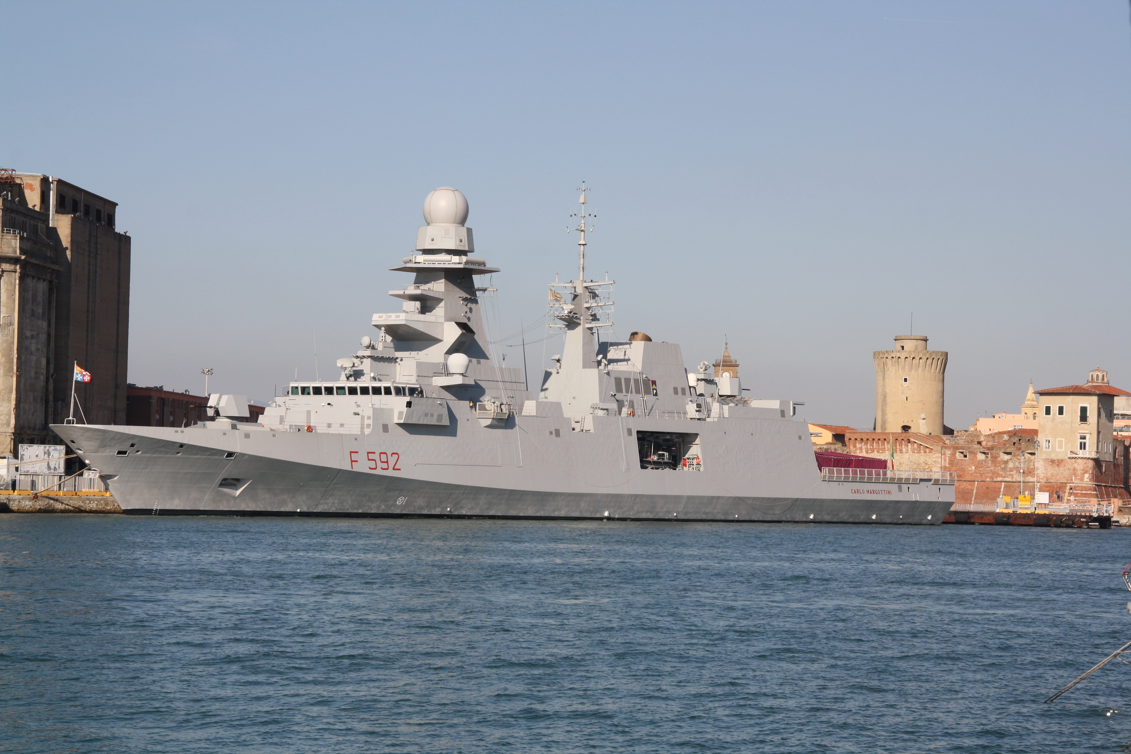 Italy Navy: Marina Militare Pennant number: F 592 Type: Frigate Launch date: June 29, 2013 Shipyard: Fincantieri, Riva Trigoso Displacement: 6700 t Length overall: 144 m Beam: 19.40 m Draft: 8.40 m Main engine: CODLAG, 1 gas turbine Avio-GE LM2500 G4 plus 32 MW, 2 electric engines JEUMONT 2,1 MW Speed: 27 knots Crew: 167 The ship Carlo Margottini is the third unit of FREMM multipurpose frigate and the second as Anti Submarine Warfare configuration. The ship entered in service on February 27, 2014 with the 2nd Command Naval Group.